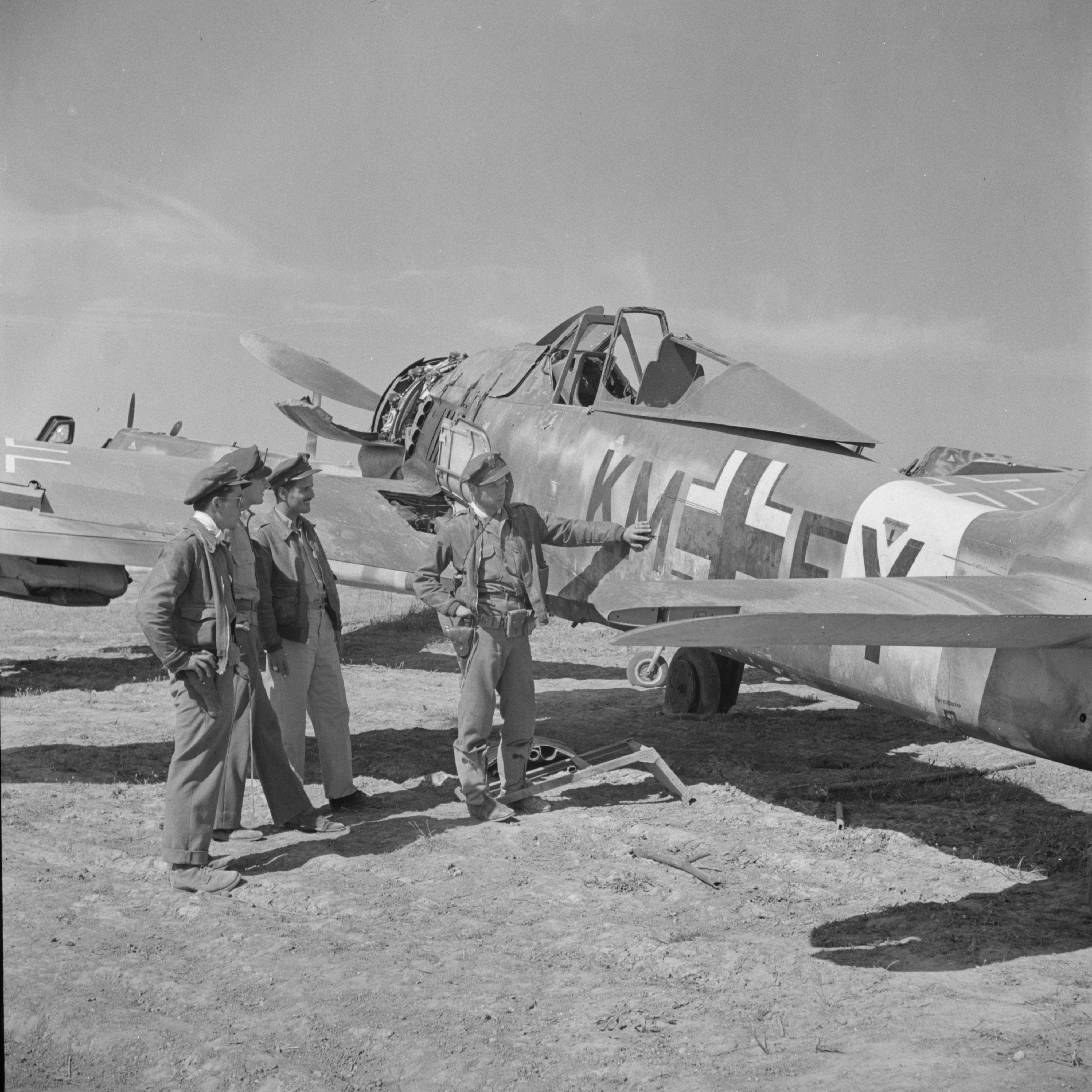 A damaged Focke-Wulf Fw 190A-4 (KM+EY) of III. Gruppe Schnellkampfgeschwader 10 (III./SKG 10) (3rd Group, 10th Fast Bomber Wing) at El Aouiana airport, Tunis, Tunisia, May 1943.